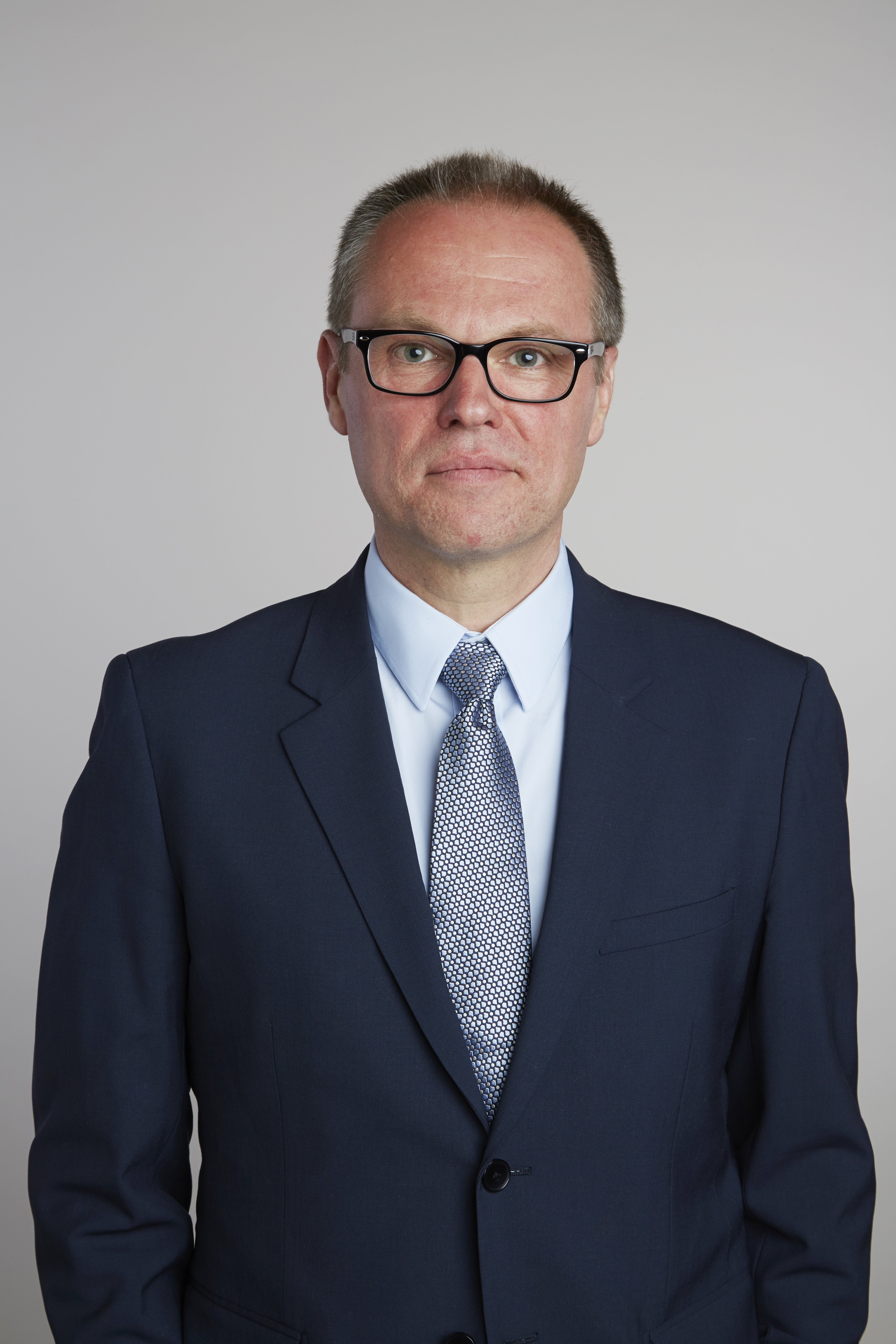 Gero Miesenböck is Waynflete Professor of Physiology and founding Director of the Centre for Neural Circuits and Behaviour at the University of Oxford. A native of Austria, he was on the faculty of Memorial Sloan-Kettering Cancer Center in New York and Yale University before coming to Oxford in 2007. Gero has received several major awards for his invention of optogenetics, including the InBev-Baillet Latour International Health Prize in 2012 and The Brain Prize in 2013. Attribution: The Royal Society